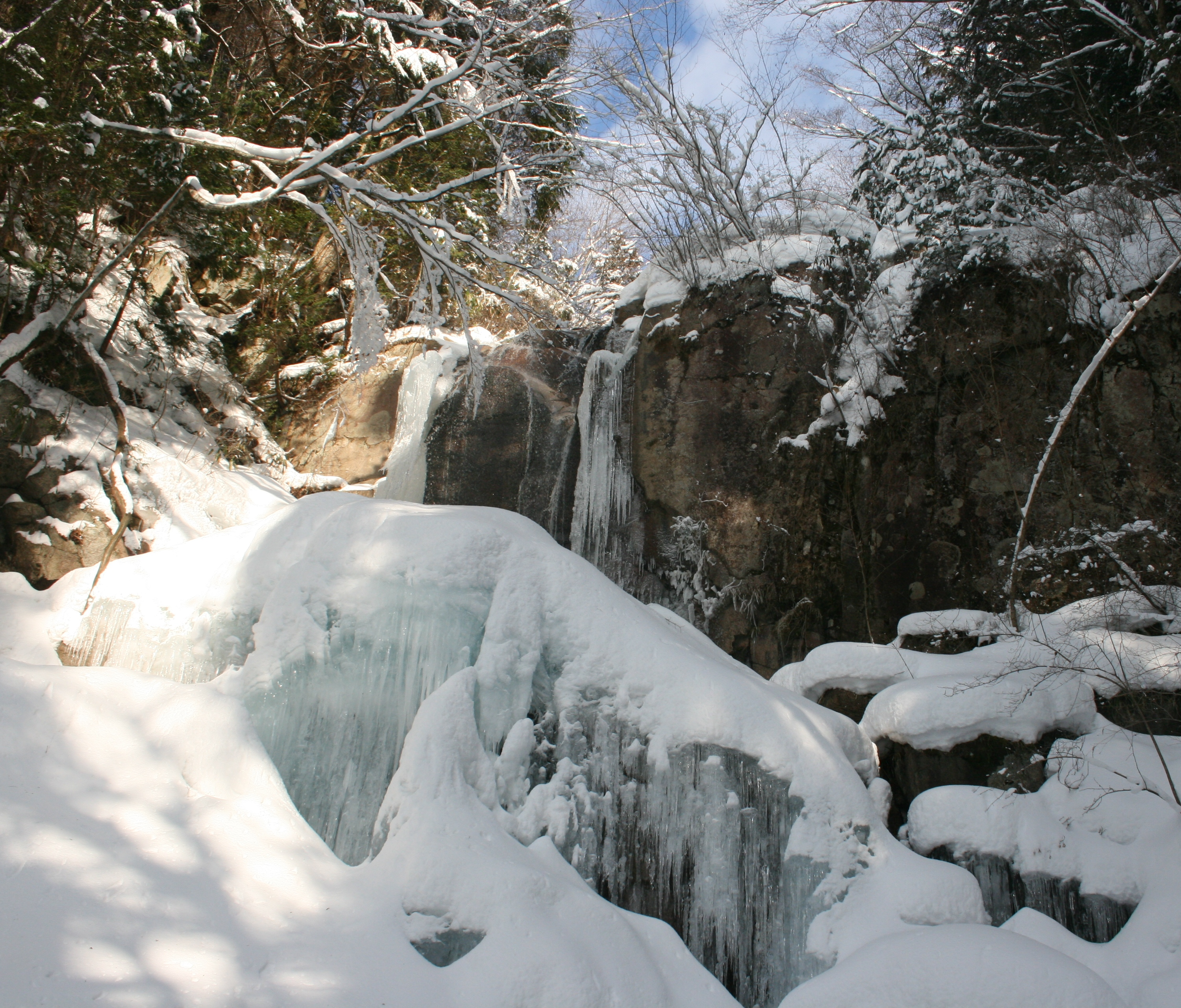 Otoko Falls in Mount Nagiso